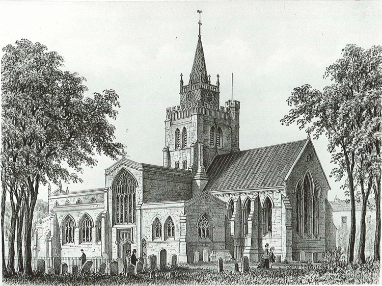 St Mary the Virgin, Aylesbury (1869)